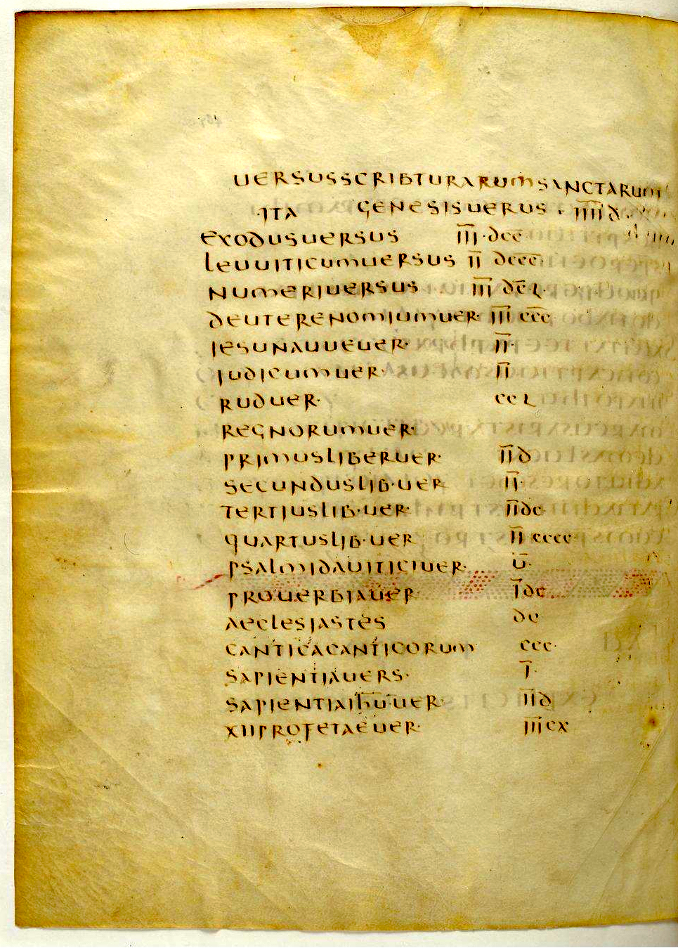 Codex Claromontanus, Leaf 468v, National LIbrary, Paris, France with stichometric totals for Christian texts